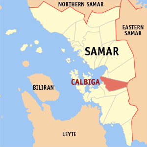 Map of Samar showing the location of Calbiga